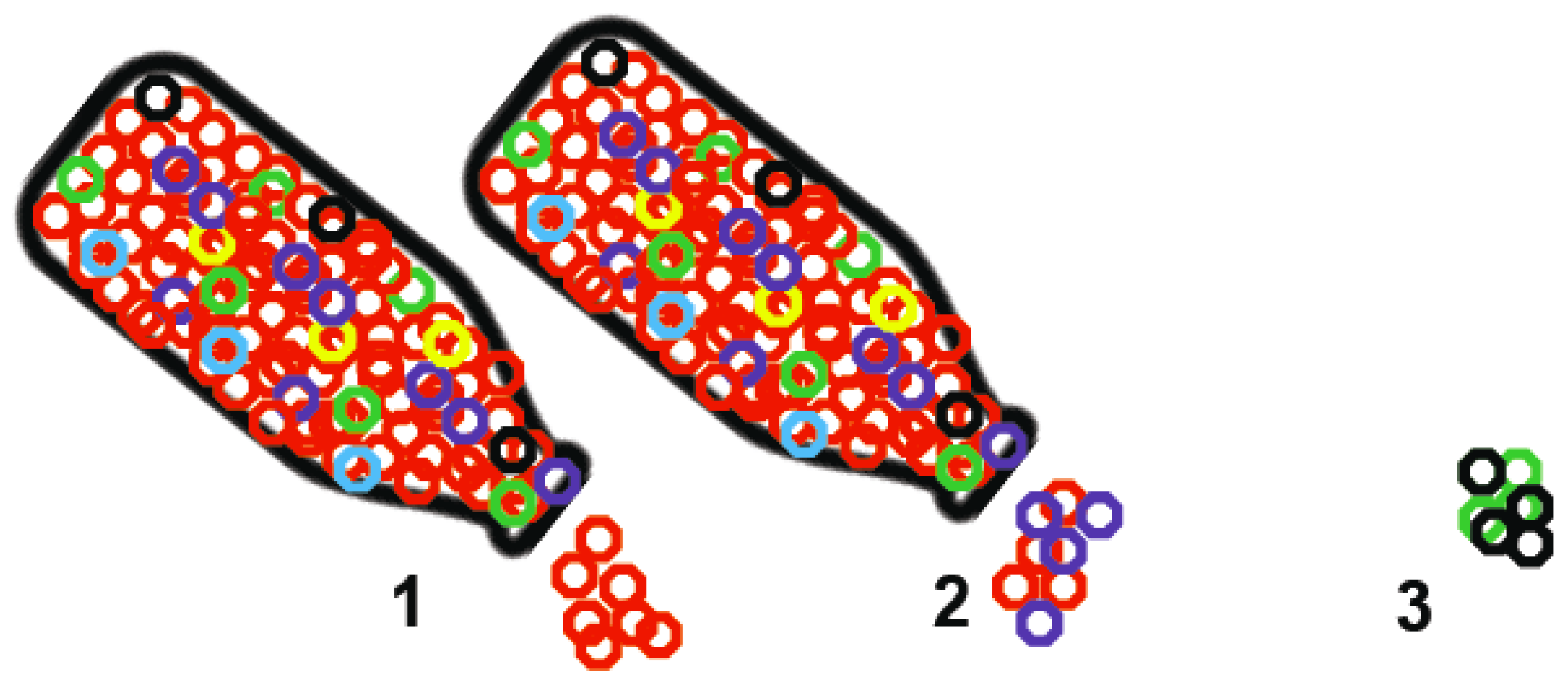 Effects of a bottleneck on virus populations, where virus variants are shown as colored circles: (1) Only the largest subpopulation is maintained after the bottleneck and viral variation decreases; (2) Virus variability decreases but a small amount of viral diversity is retained, and (3) Virus population diversity changes significantly due to random selection of small subpopulations and the dominant sequence is not perpetuated.